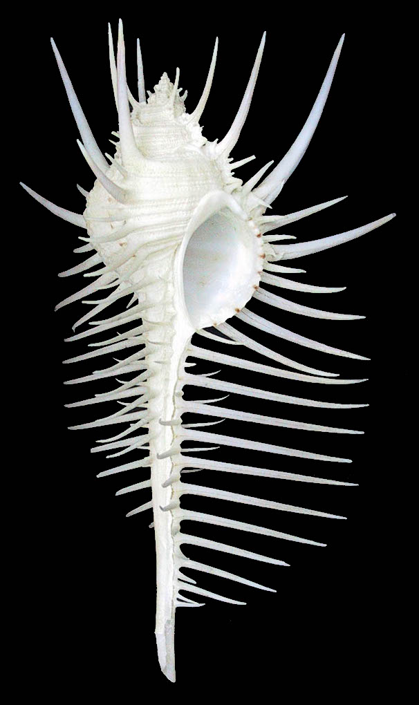 An apertural view of the shell of Murex pecten.